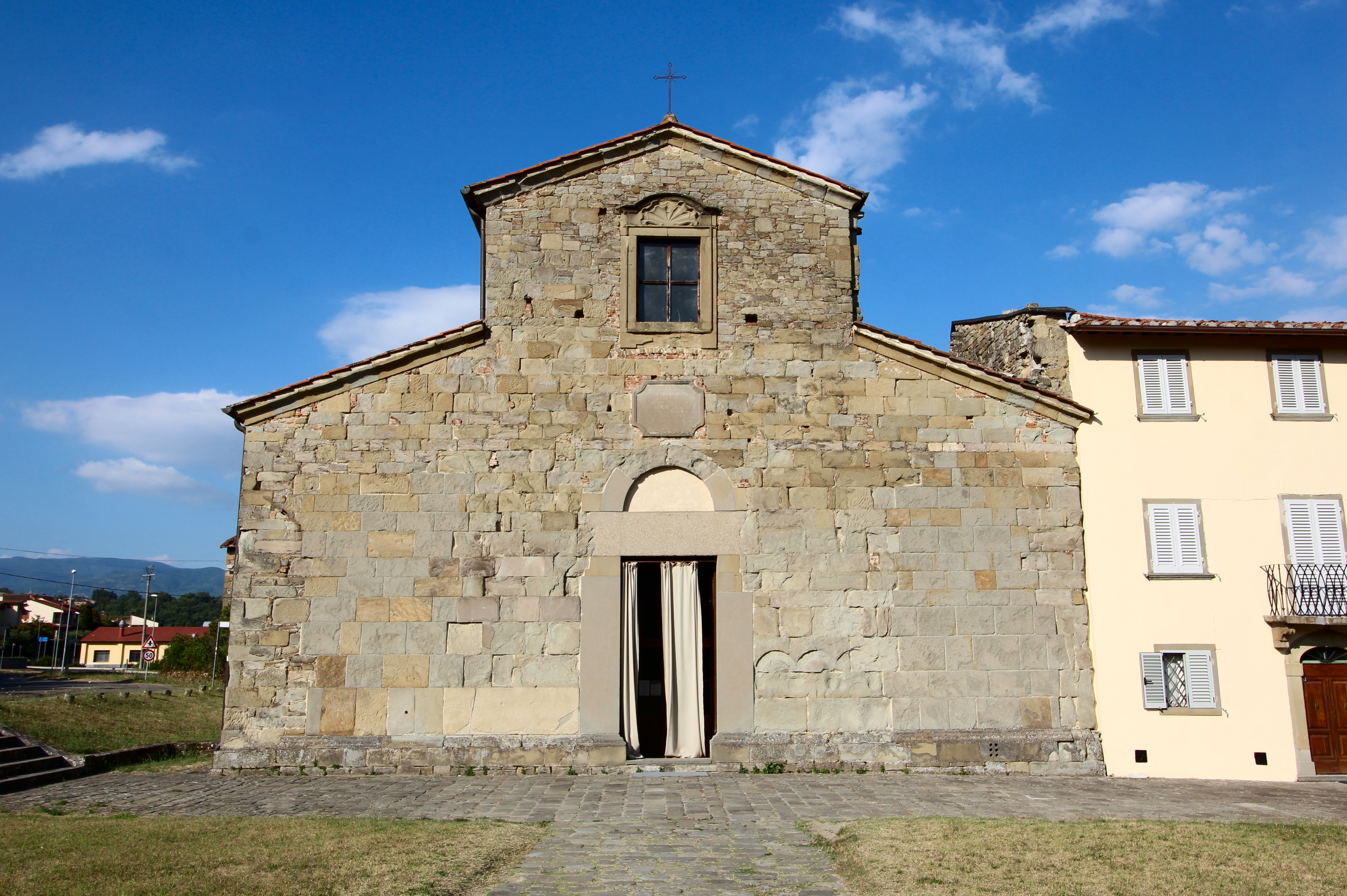 Church San Martino a Vado, Stada in Casentino, hamlet of Castel San Niccolò, Casentino, Province of Arezzo, Tuscany, Italy